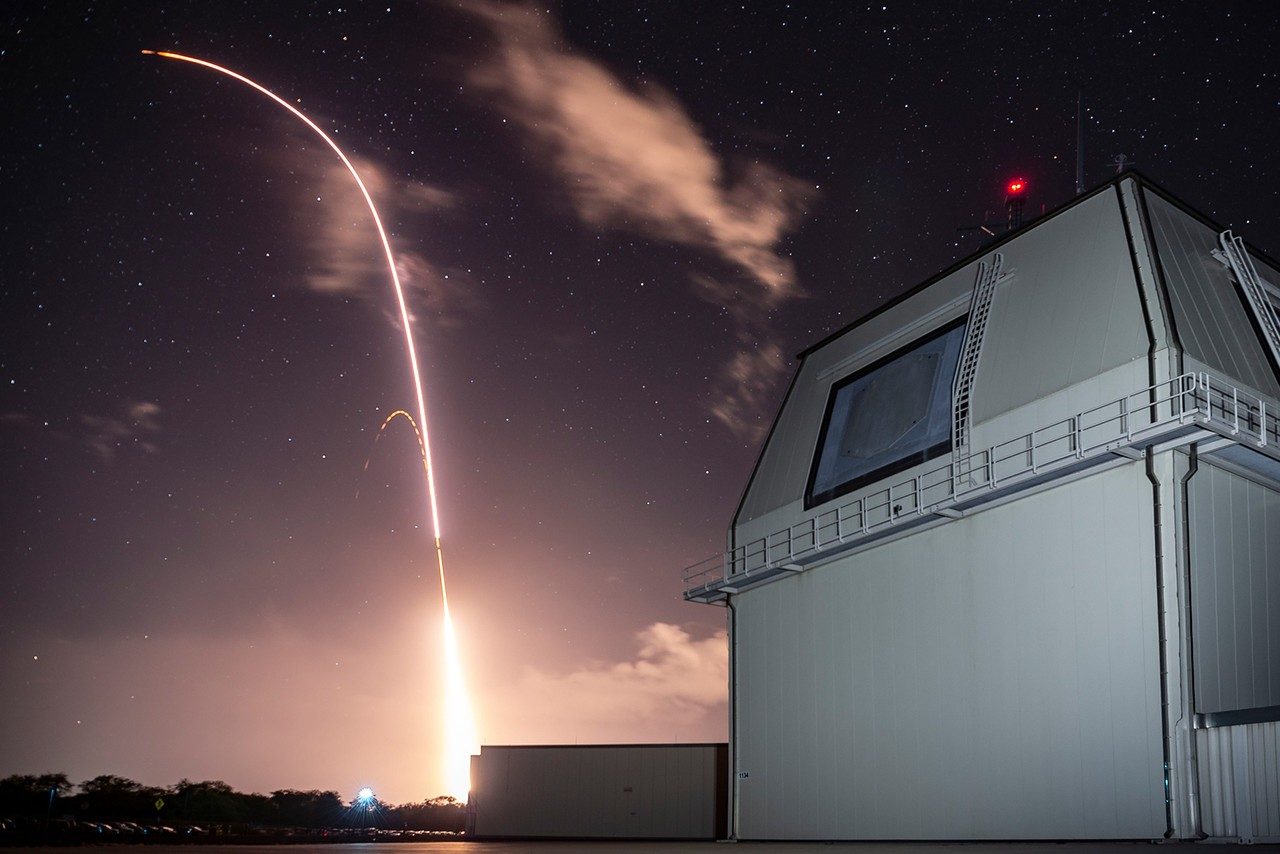 A Standard Missile (SM) 3 Block IIA is launched from the Aegis Ashore Missile Defense Test Complex at the Pacific Missile Range Facility at Kauai, Hawaii, Dec. 10, 2018, to successfully intercept an intermediate-range ballistic missile target in space. 181210-A-AB123-005